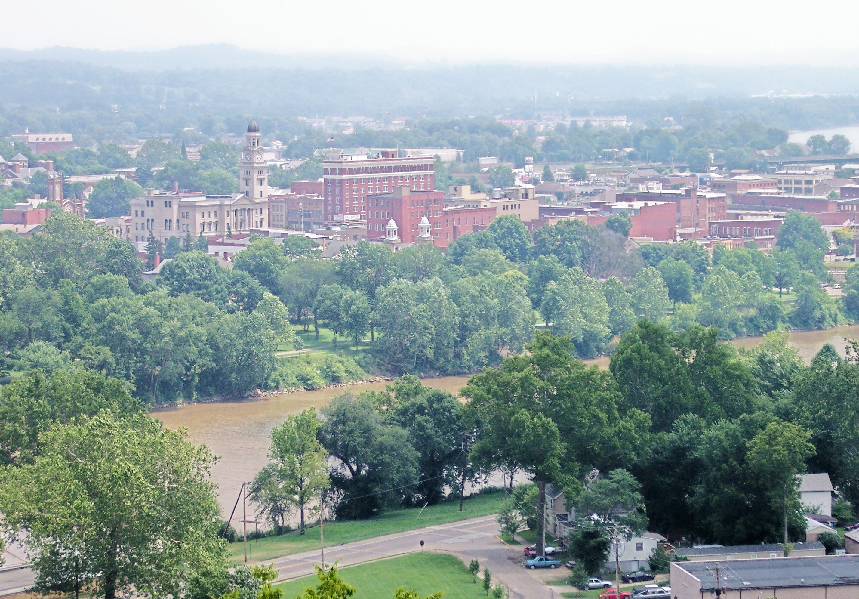 Downtown Marietta, Ohio along the Muskingum River